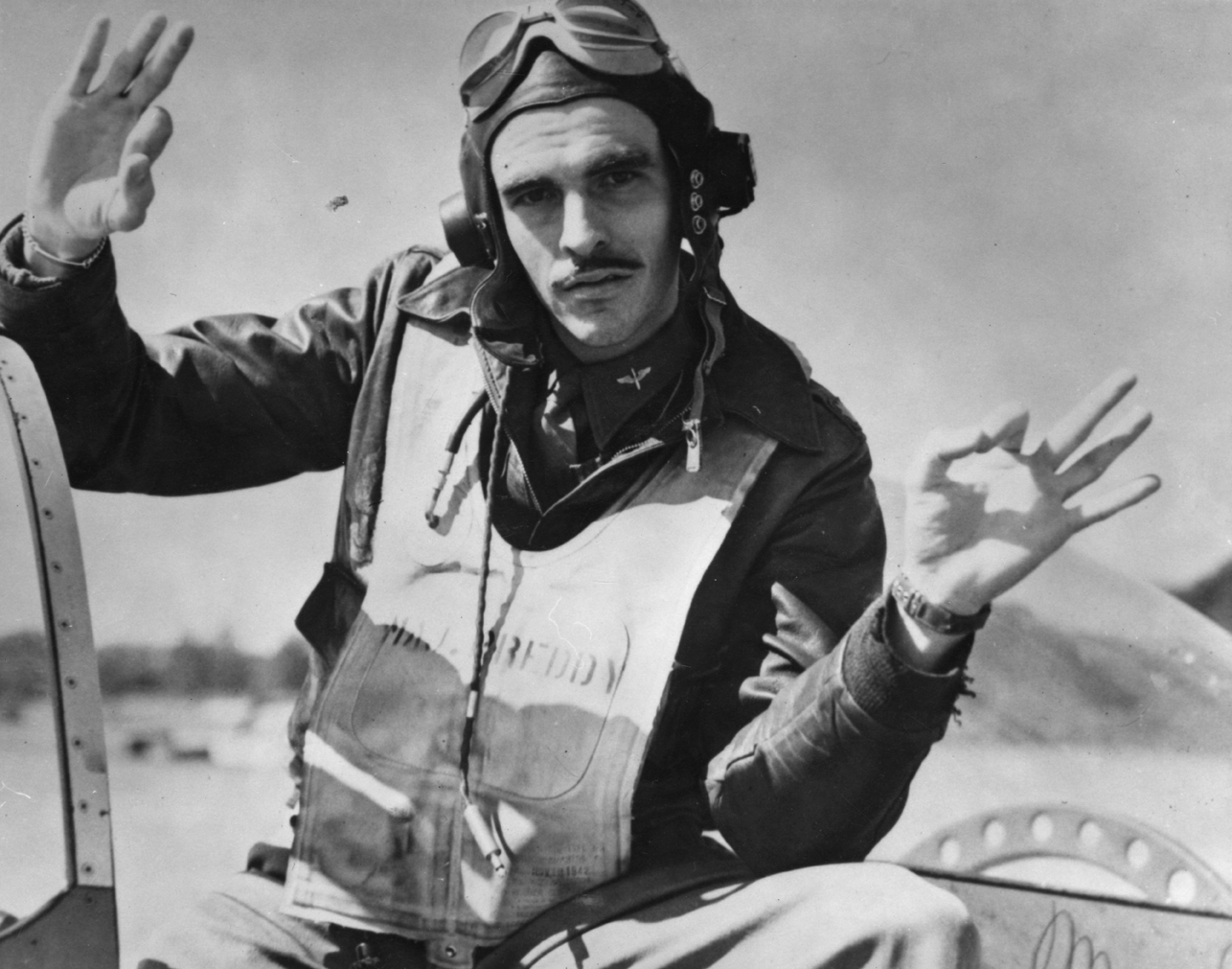 Major George E. Preddy Jr. of the 487th Fighter Squadron, 352nd Fighter Group, hold up hands for six enemy aircraft he shot down on 6 August 1944 mission. This was a record number of victories for a single pilot in one mission.